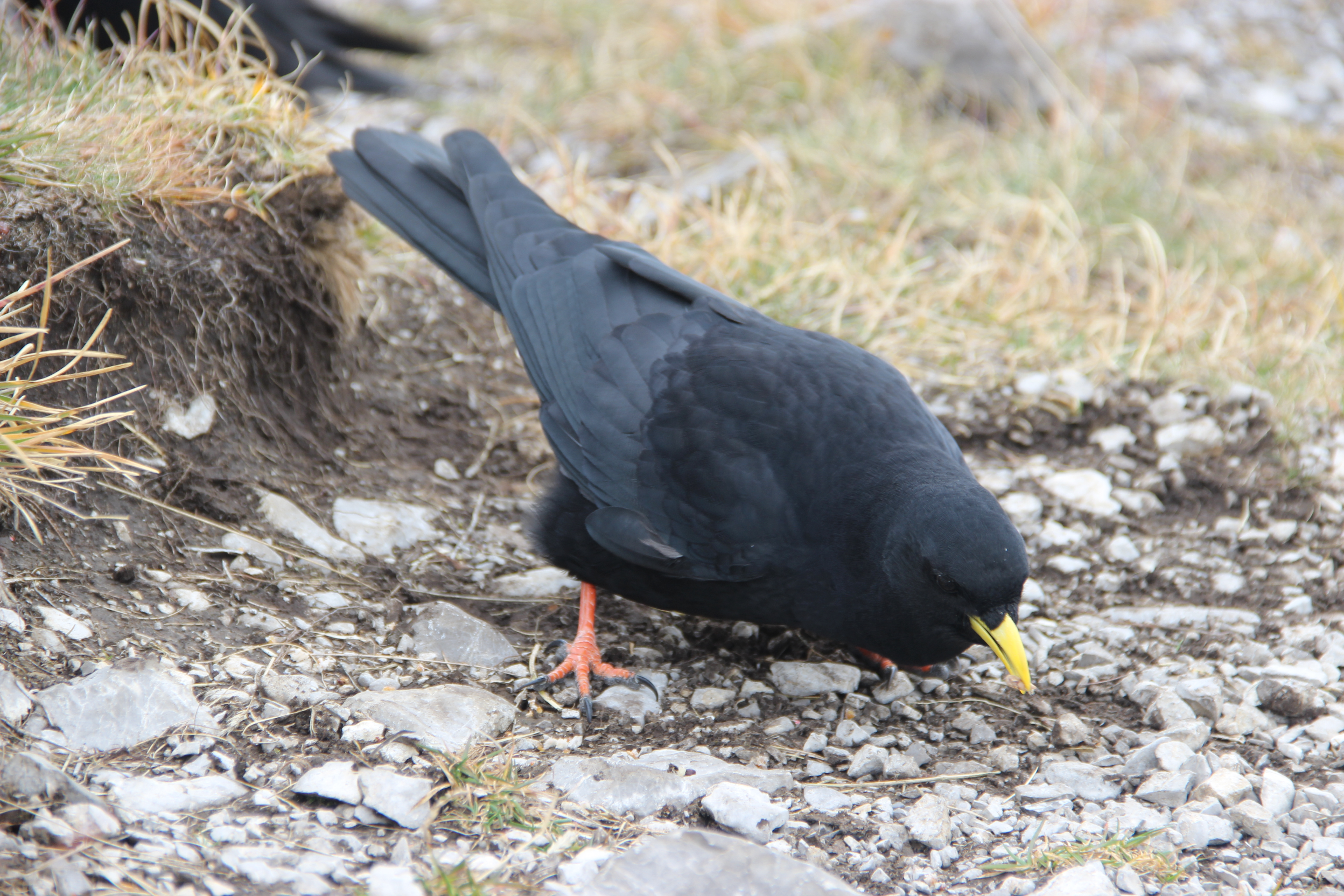 Alpine chough - Pyrrhocorax graculus